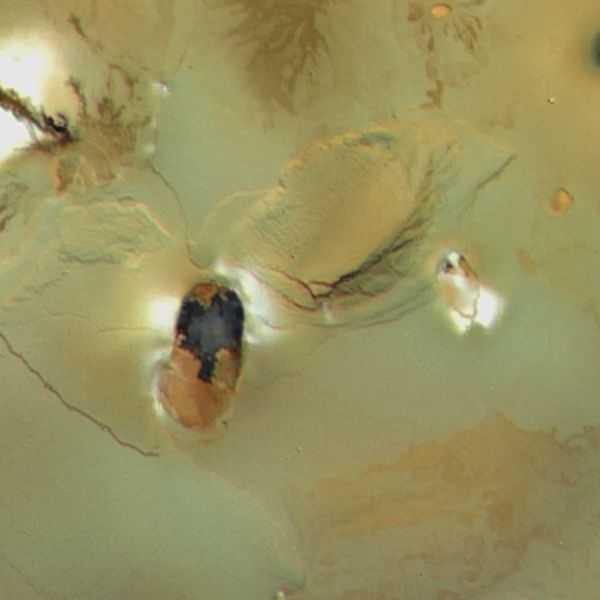 This is a view of Euboea Montes, one of the highest mountains on Jupiter's moon Io. (see Io Mountain Database) It was obtained from NASA's image PIA00328 from Voyager 1 by doubling the linear pixel density, sharpening, rotating and cropping. North is towards the top. Many of the features in this image are annotated in Wikimedia Commons.